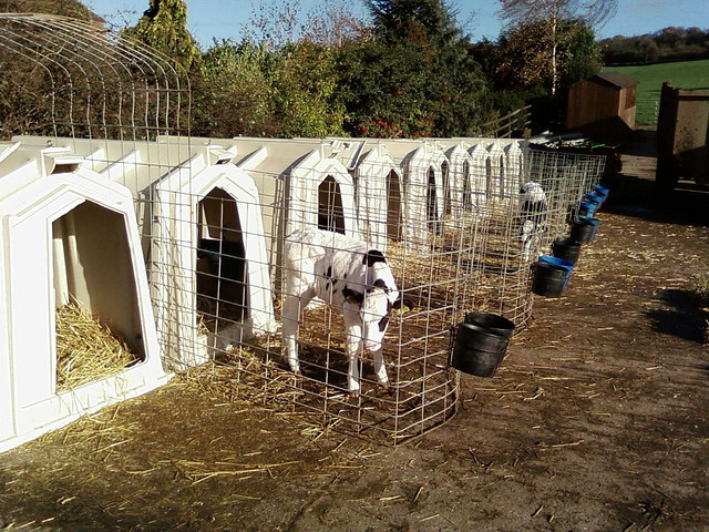 Calves and calf igloos at a farm in England. – "Just born calves at a farm near The Old Vicarage. We went to get grain, and these guys were too cute not to snap a few pictures."